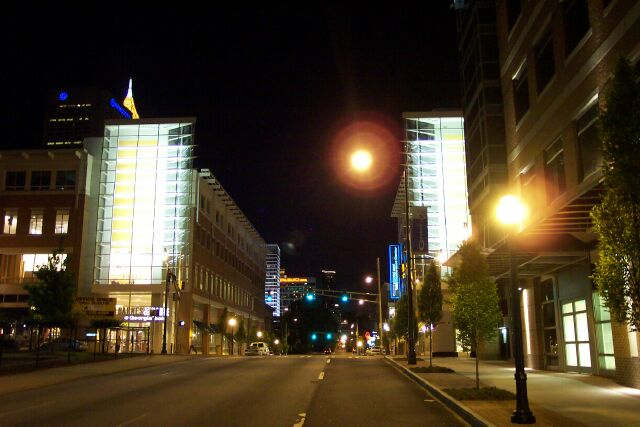 Tagging Gfdl: Likely shot by uploader Category:Georgia Institute of Technology